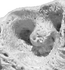 Cavidade óssea do processo alveolar